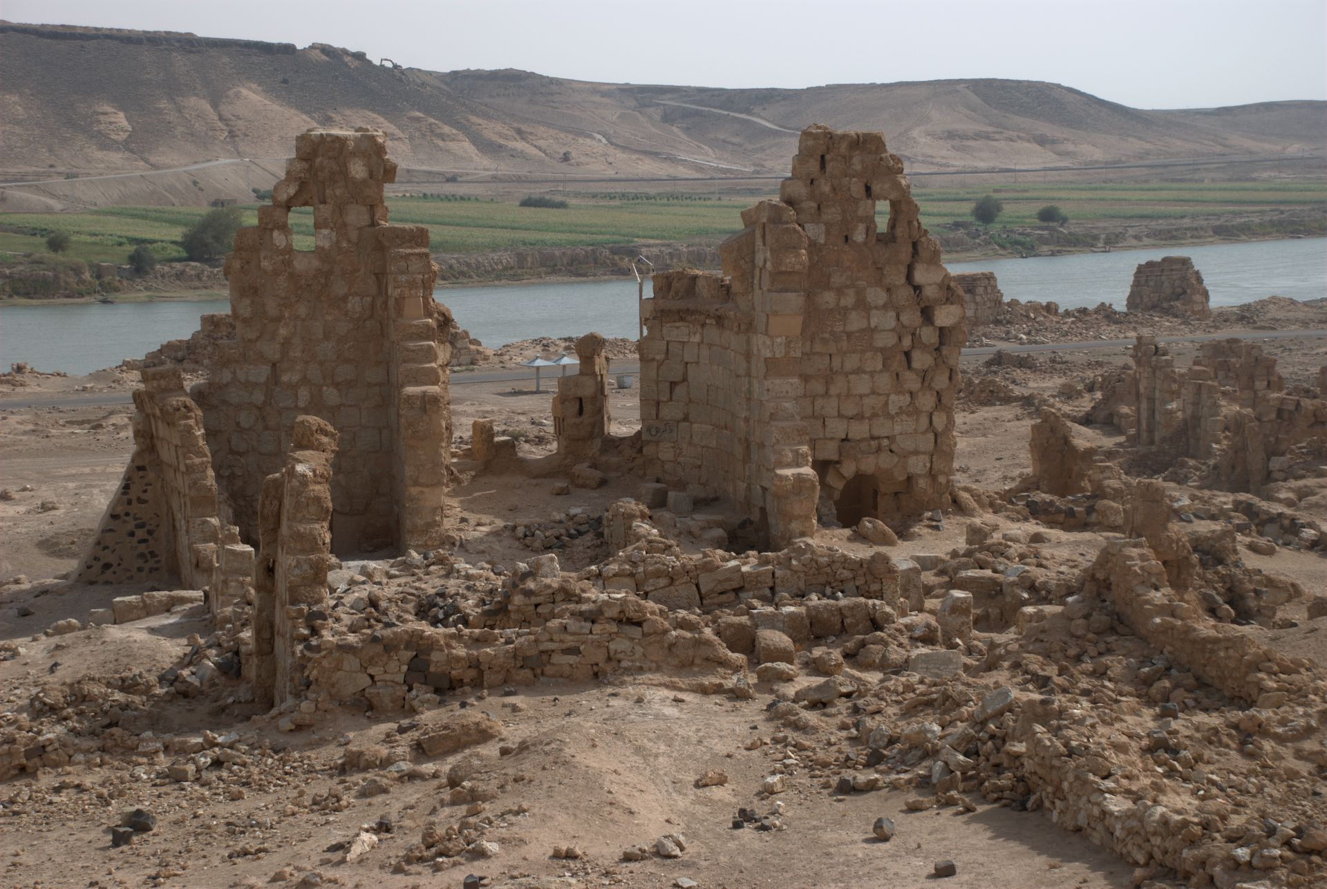 Halabiya, Zenobia, Syria. Northwest basilica